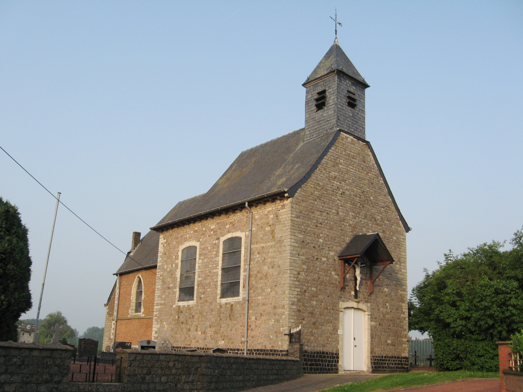 Church of Saint Lawrence in Helen-Bos, Zoutleeuw, Flemish Brabant, Belgium